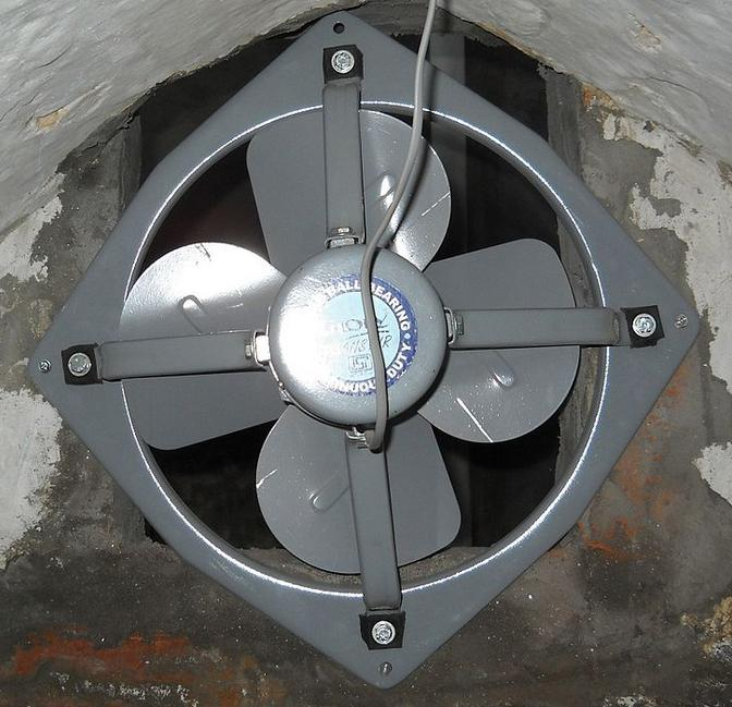 Second version of a picture of exhaust fan